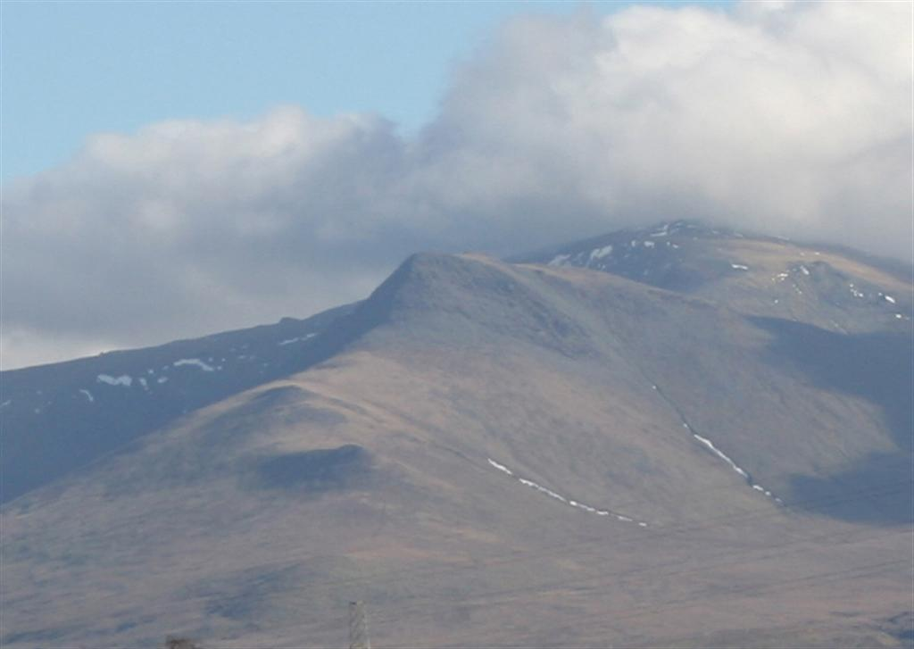 Yr Elen Rhion Pritchard - own work